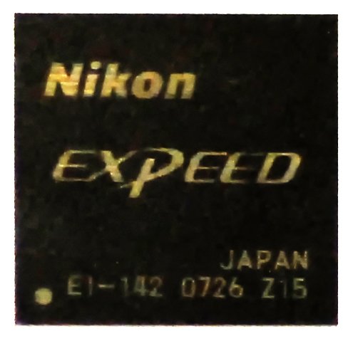 "Made in Japan" and "Made by Nikon": Nikon Image Processing System: Expeed.